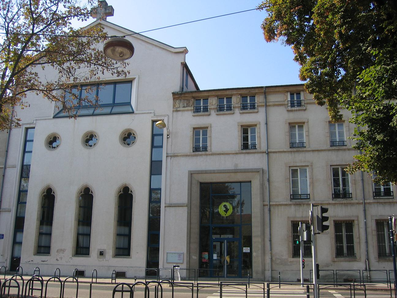 Exterior of Saint-Sigisbert School, Nancy, France.